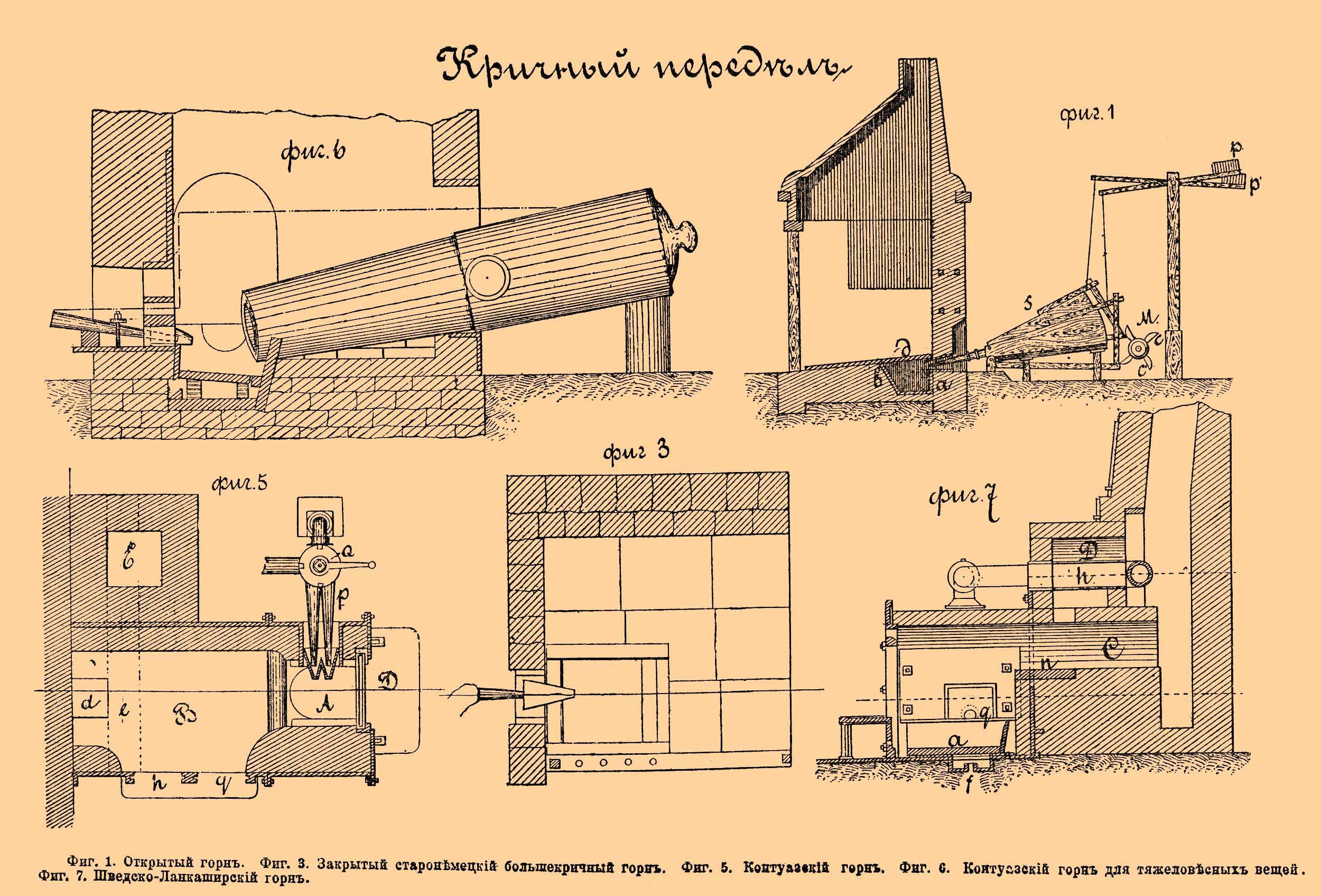 Illustration from Brockhaus and Efron Encyclopedic Dictionary (1890—1907)